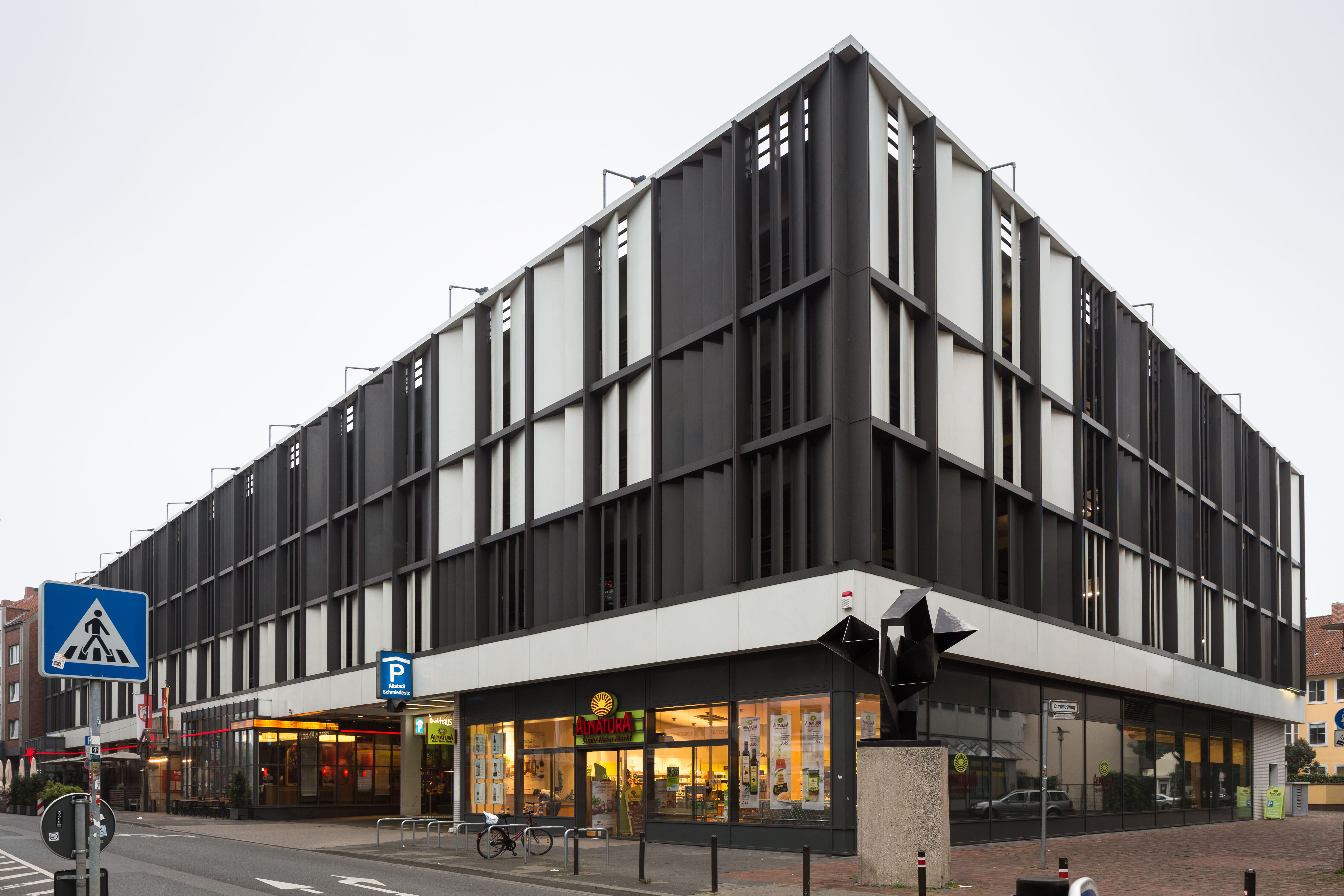 Car park located at Schmiedestrasse in Mitte quarter of Hannover, Germany.